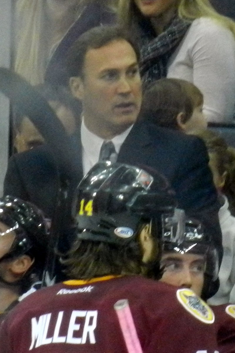 Mike Foligno, assistant coach for the Chicago Wolves during the 2012-13 AHL season